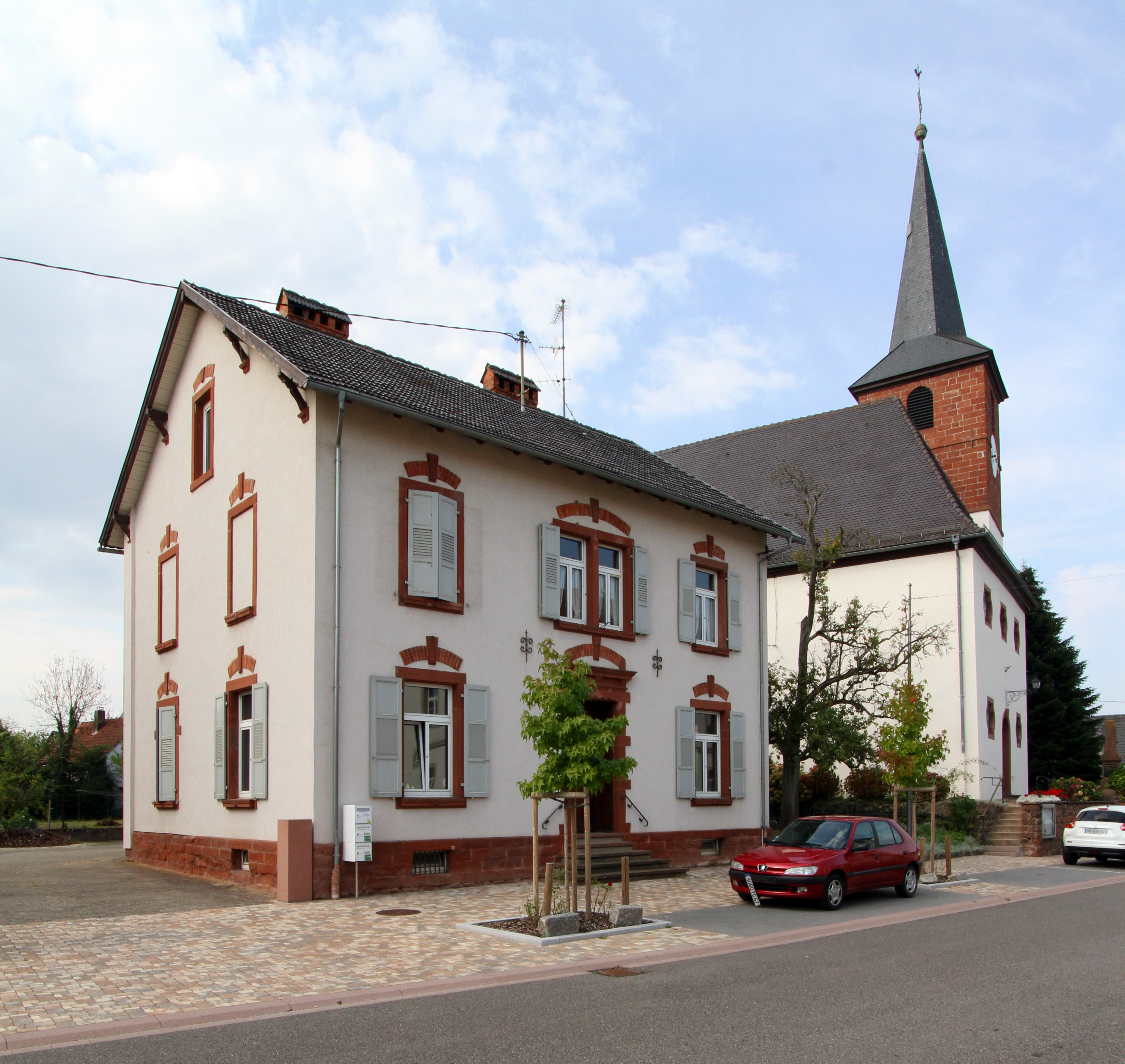 Church of Saint Stephen in Salmbach.